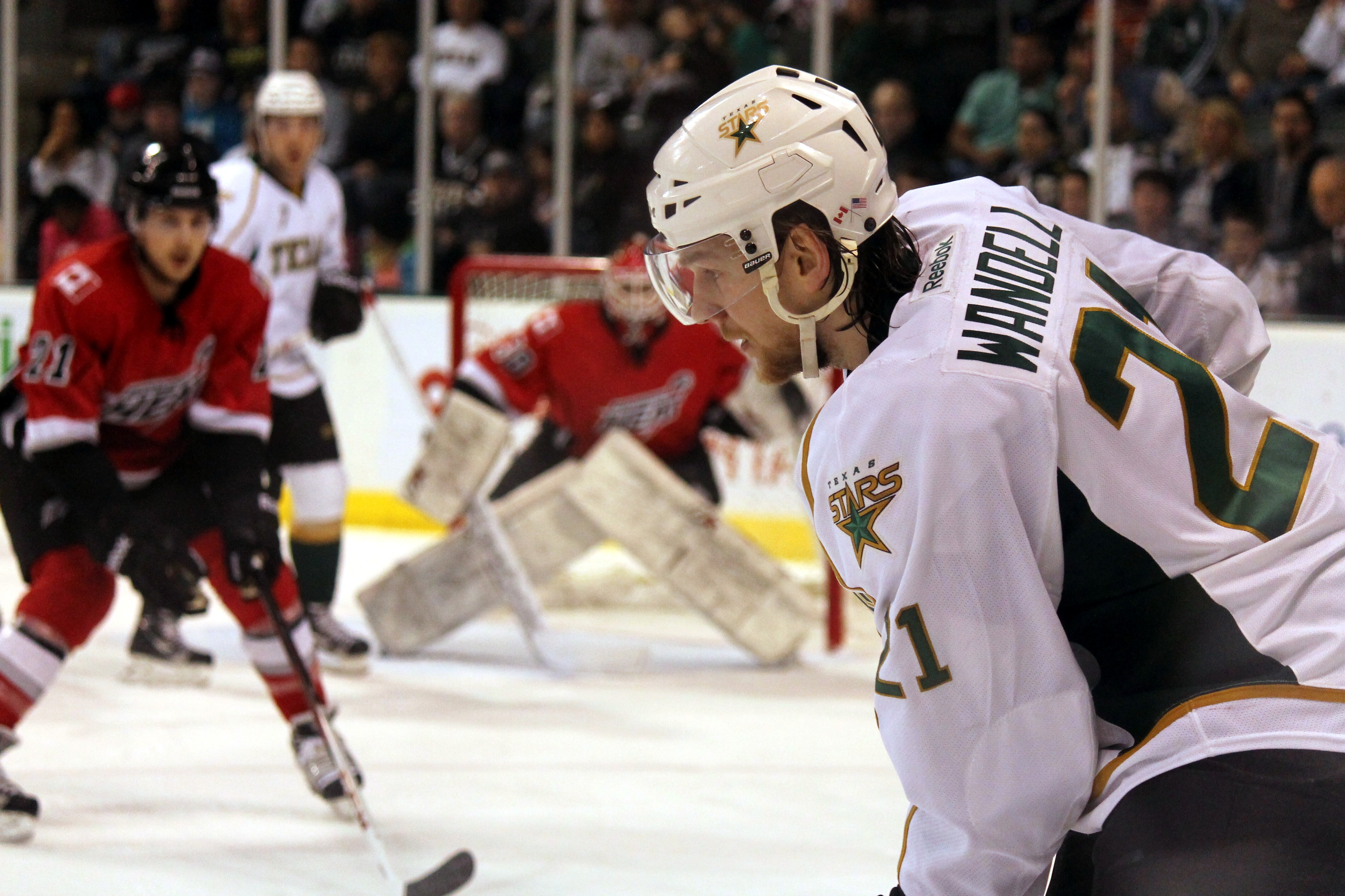 Tom Wandell of the Texas Stars